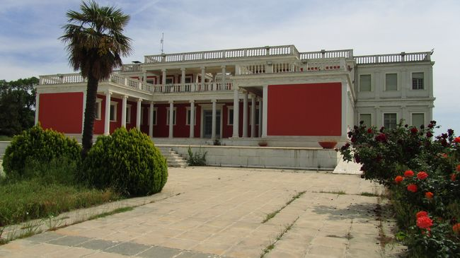 Palataki Thessaloniki